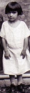 Simin Daneshvar